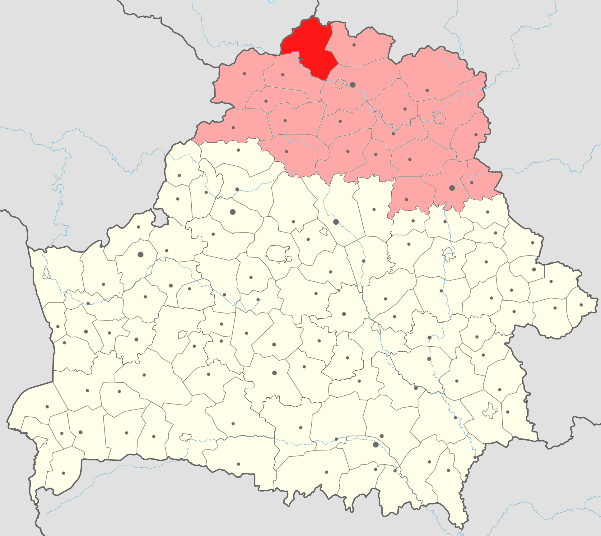 Map of Vierchniadzvinski raion (in red) with Viciebskaja voblast' (in light red) on the map of Belarus.